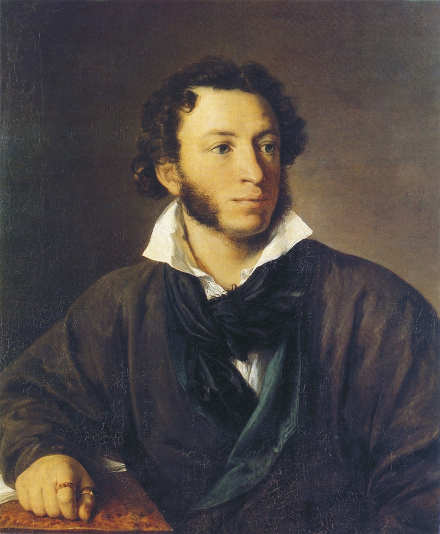 Vasily Tropinin. Portrait of Alexander Pushkin. 1827. Oil on canvas.